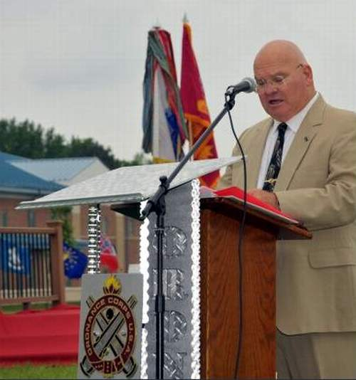 Doctor William Atwater giving the keynote address during the dedication of the Major Hulon B. Whittington parade field. May 17, 2012. More information